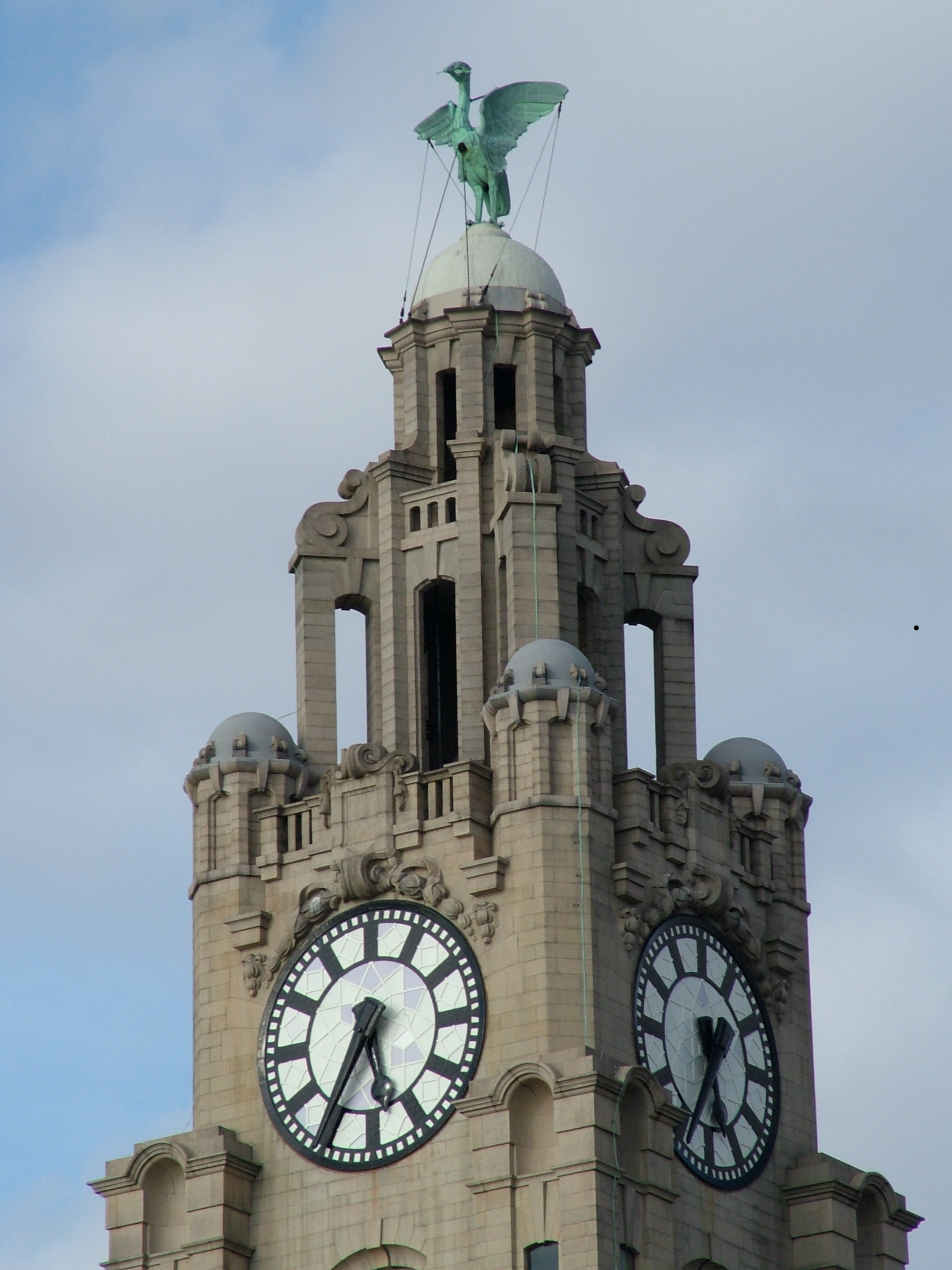 a Liver bird